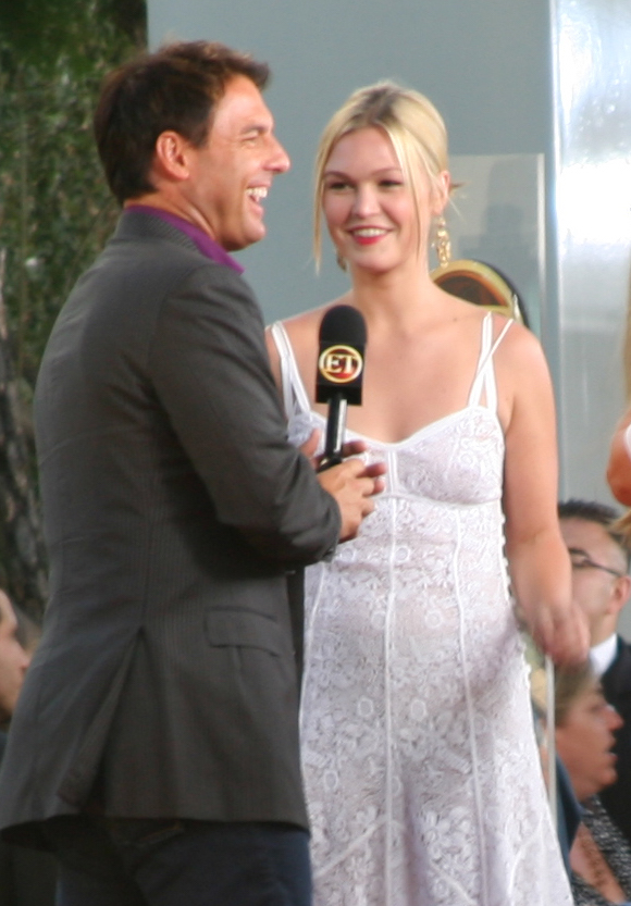 Actress Julia Stiles being interviewed by Mark Steines of the Entertainment Tonight television programme at the premiere of the film The Bourne Ultimatum at the Cinerama Dome in Hollywood, California, in the United States on July 25, 2007.